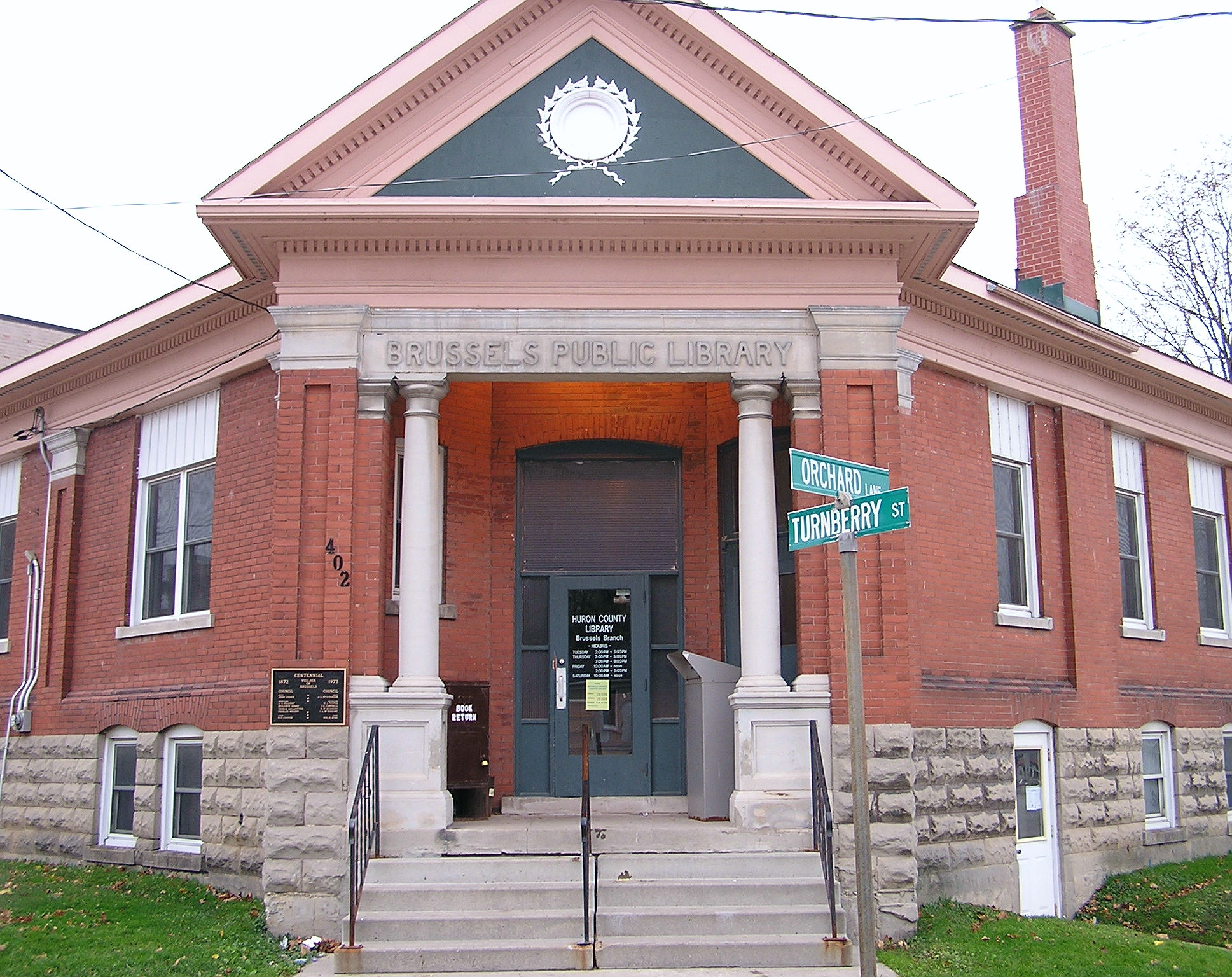 Built with a Carnegie grant of $7000, the Brussels Public Library opened on January 14, 1910. It is one of only six in Ontario to have a corner entrance, a feature deemed extravagant by James Bertram, Carnegie’s private secretary who ran the grant program. (Orchard Line at Turnberry Street, Brussels, Ontario)